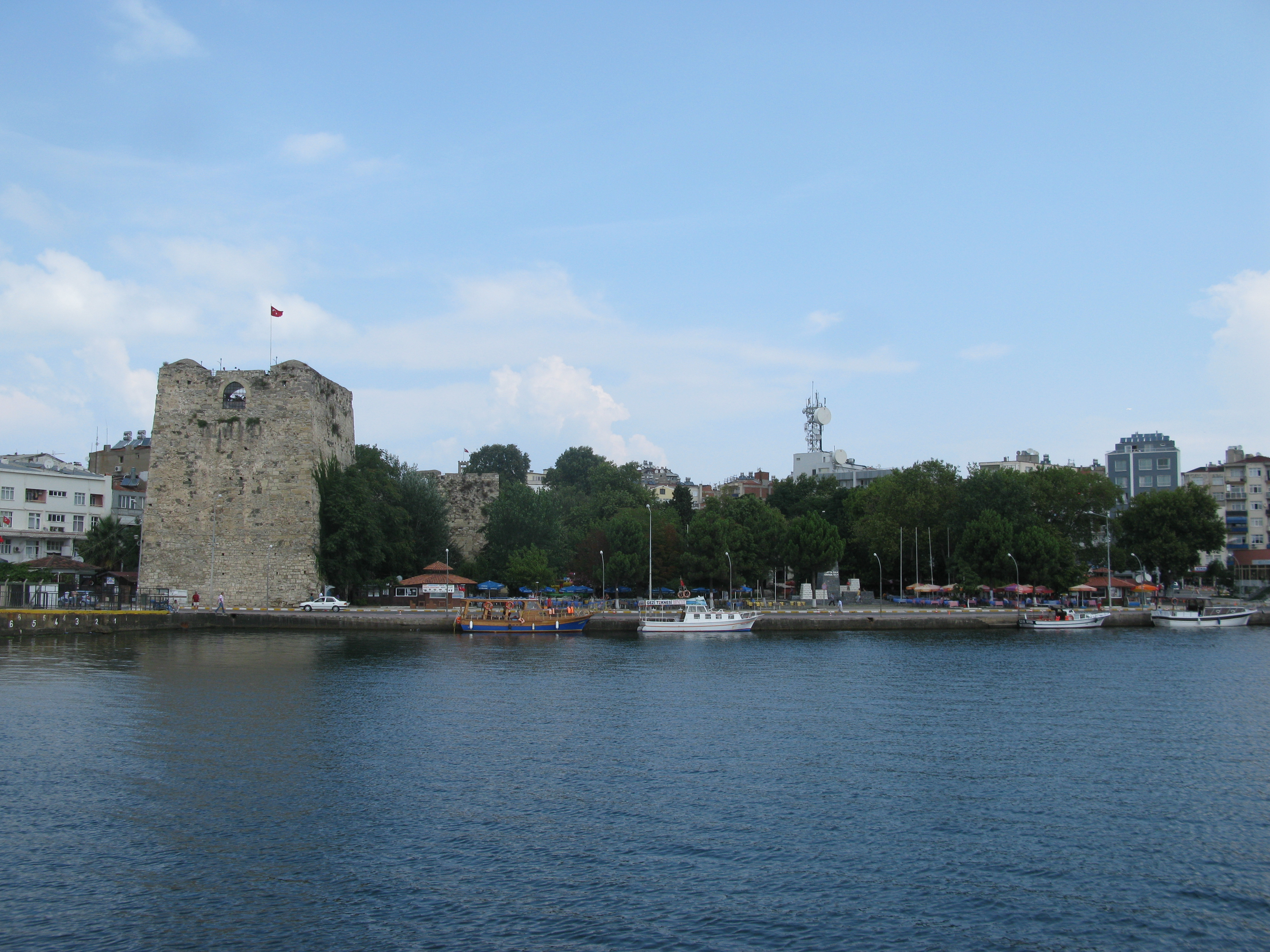 Sinop, Turkey, view from the harbour